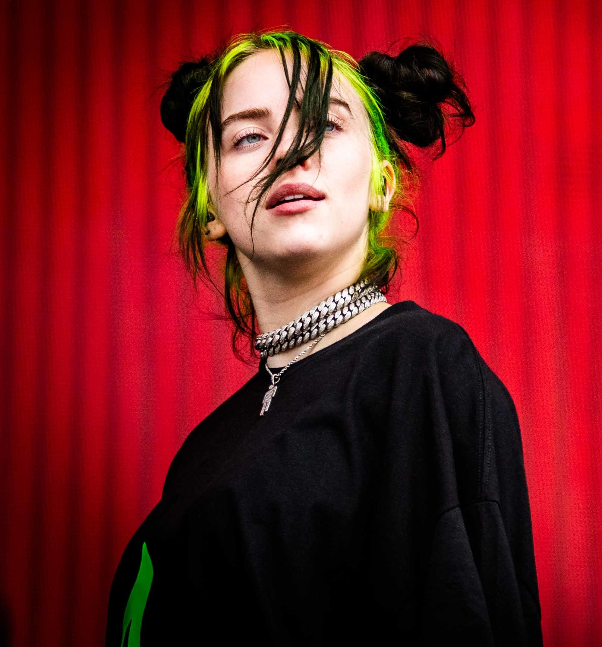 © Lars Crommelinck Photography BillieEilish #Pukkelpop2019